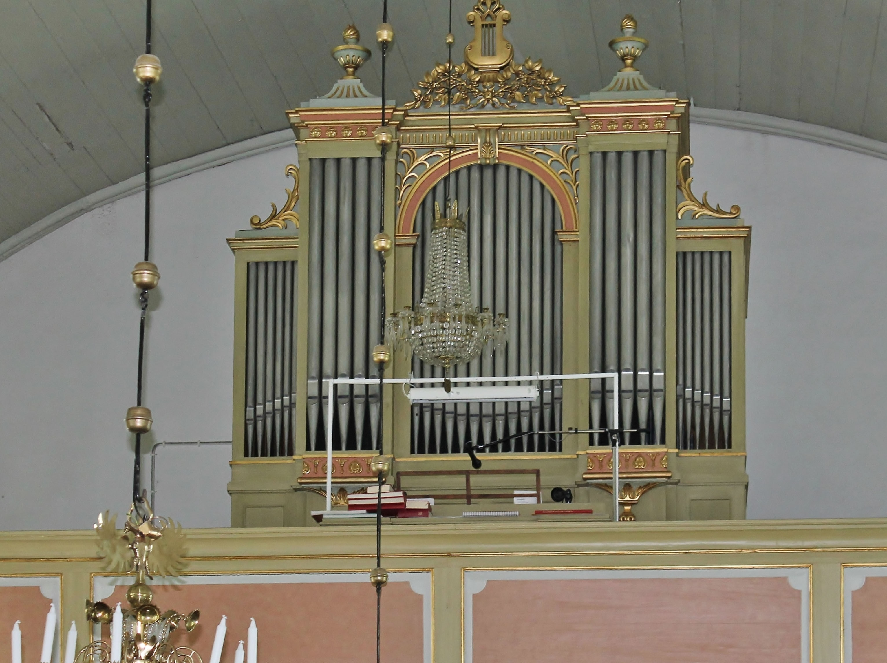 Hulterstad Church.Organ